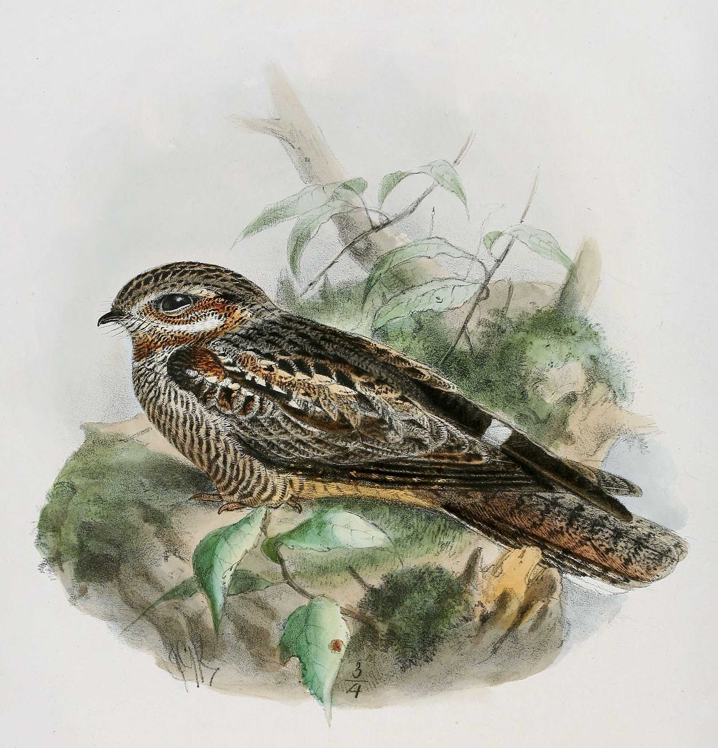 Caprimulgus europaeus